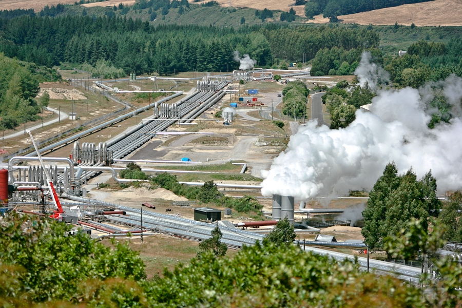 Wairakei Power Station is a geothermal power station near the Wairakei Geothermal Field in New Zealand.